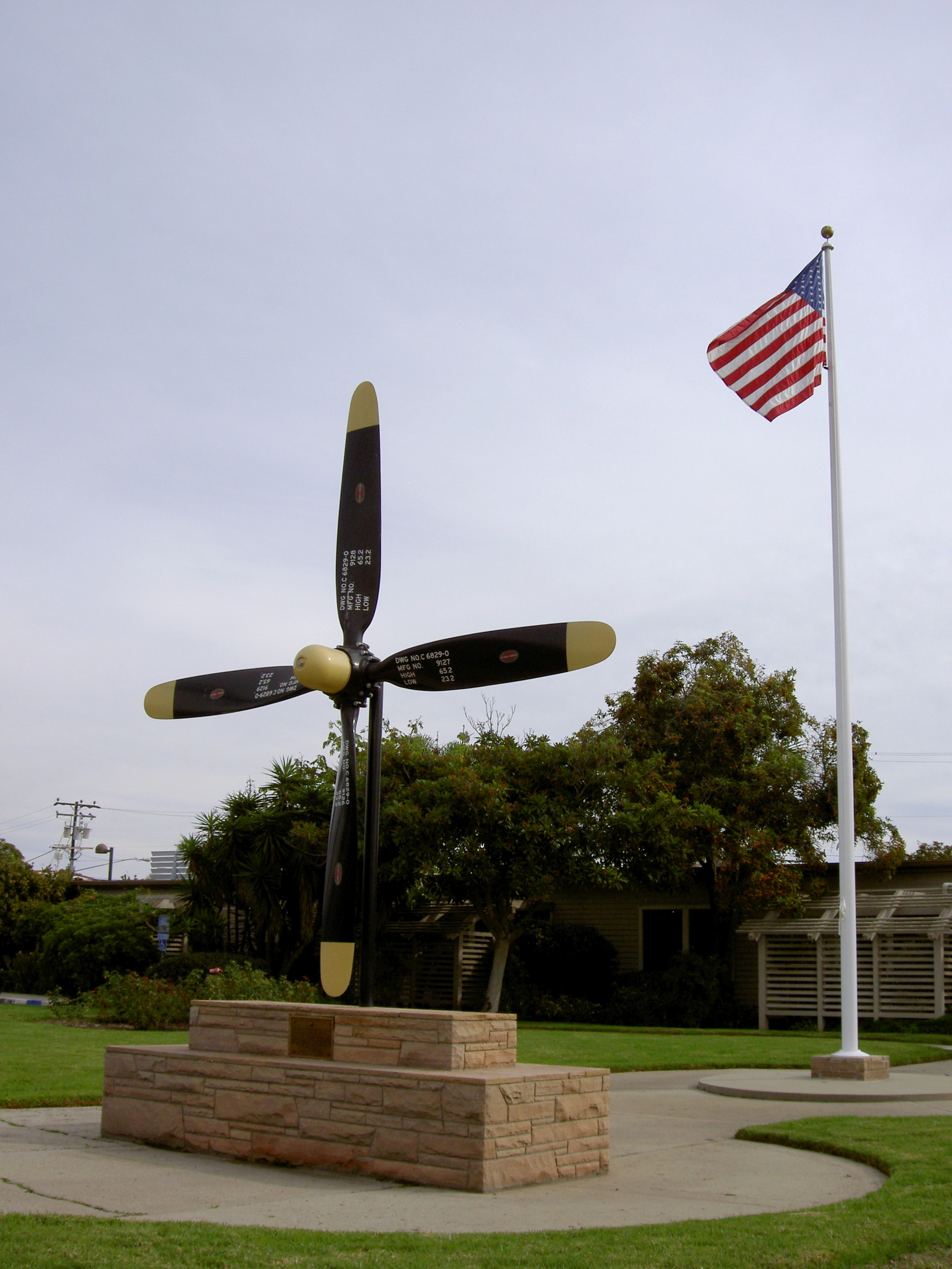 Propellor in front of a building at the Santa Barbara Airport, marking the land's history as Marine Corps Air Station Santa Barbara during WWII.